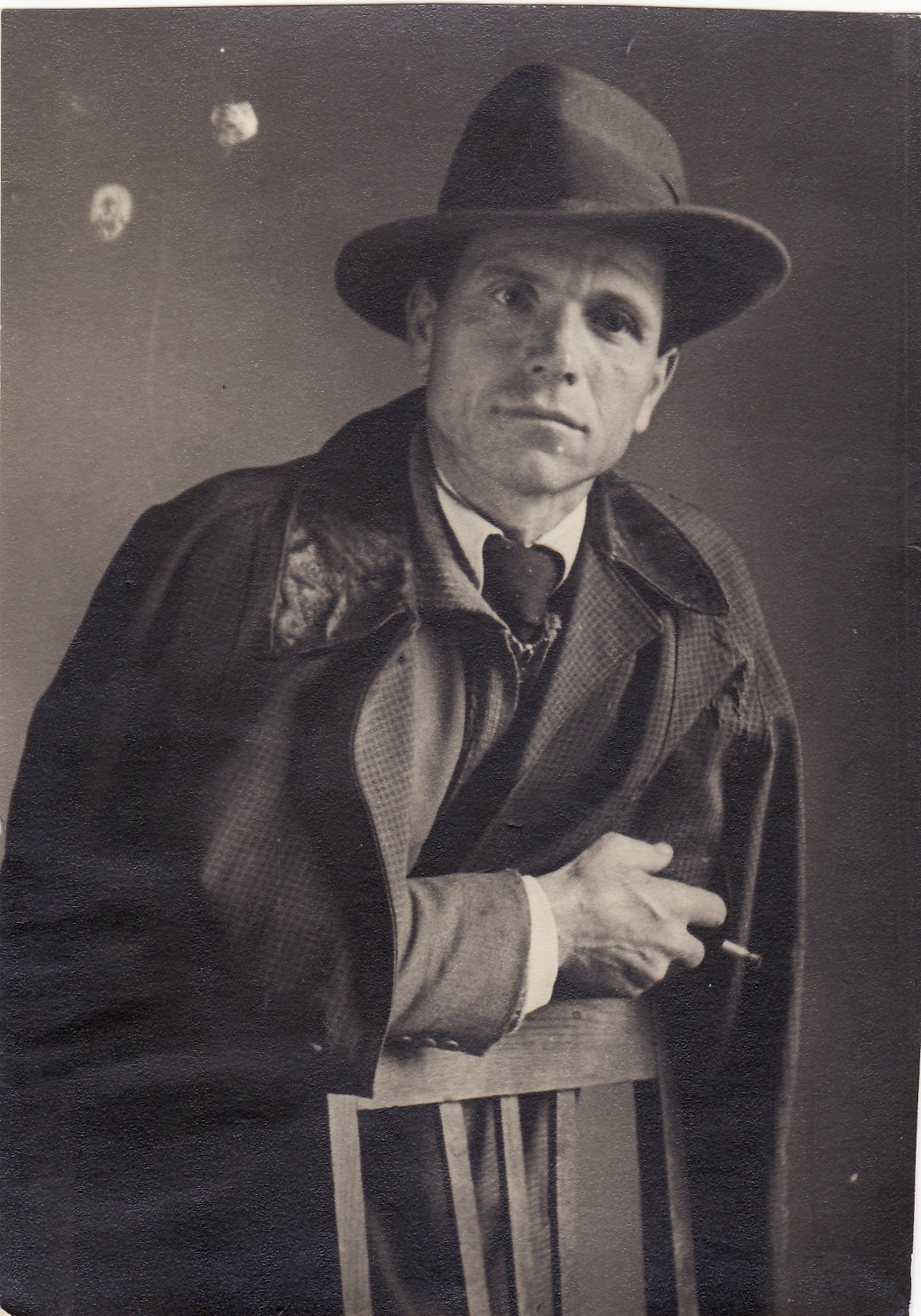 Uladzimier Stralcou (1905-2001) Belarusian film director